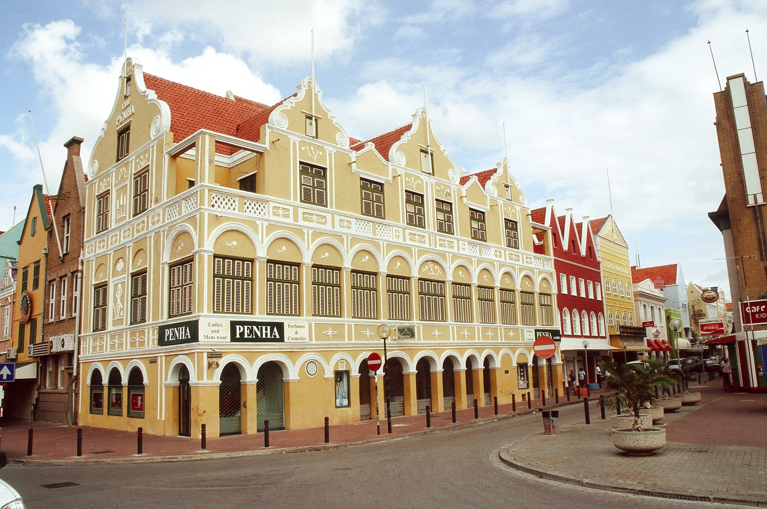 The original Penha building in Willemstad, Curacao built in 1708 and is the main shop of the penha store franchise 1